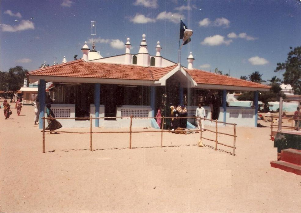 View of Erwadi dargah in the normal day time